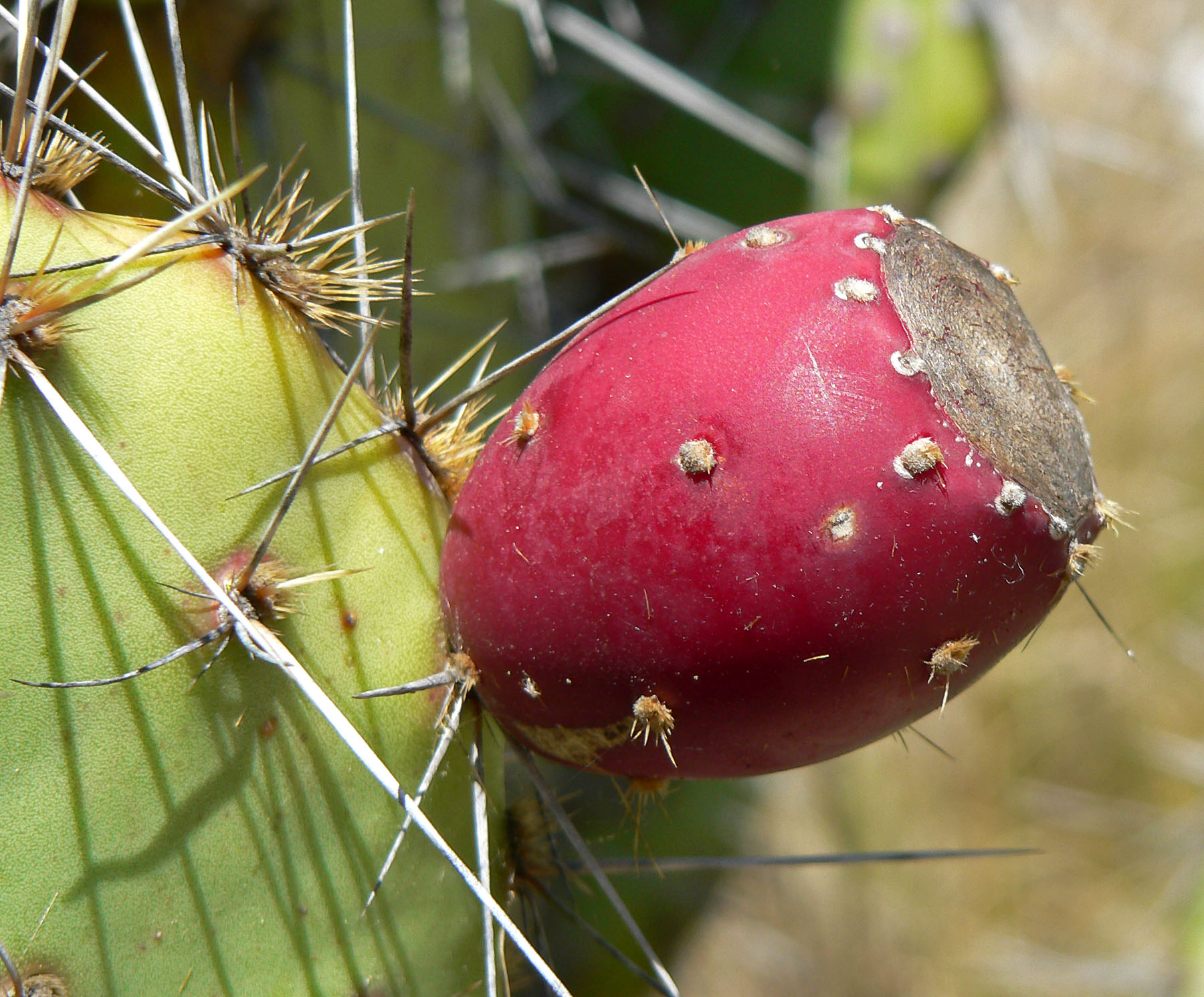 Opuntia phaeacantha at the University of California Botanical Garden, Berkeley, California